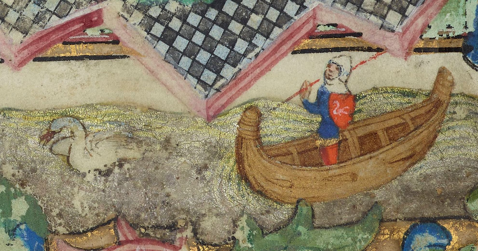 The knight of the swan, marginalia in the Book of Hours of John the Fearless, Duke of Burgundy